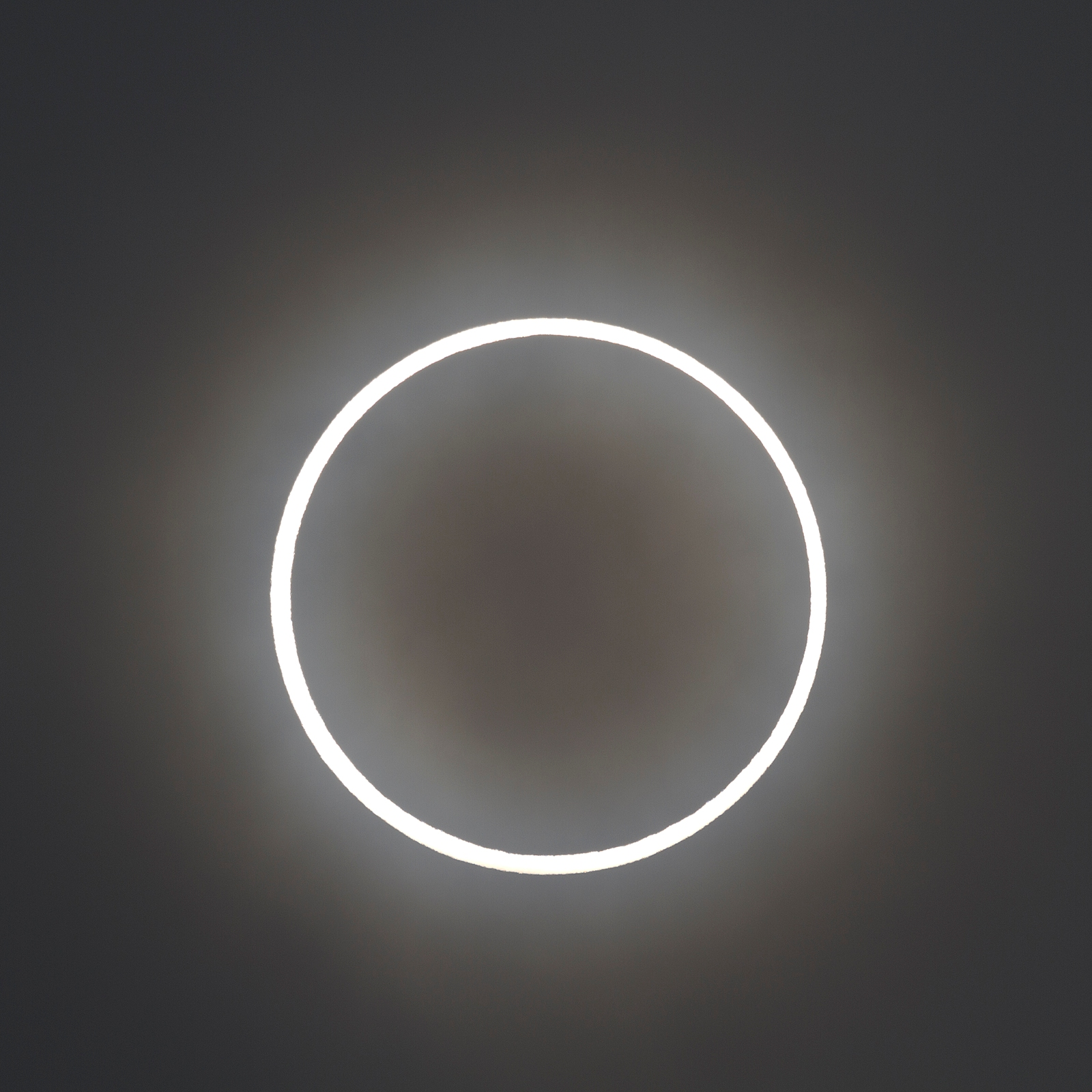 Solar eclipse (annular eclipseat) at kashima Japan May 21 2012